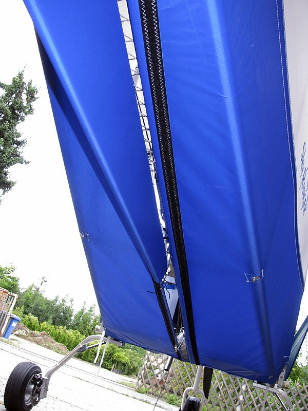 Skyranger construction - presewn fabric